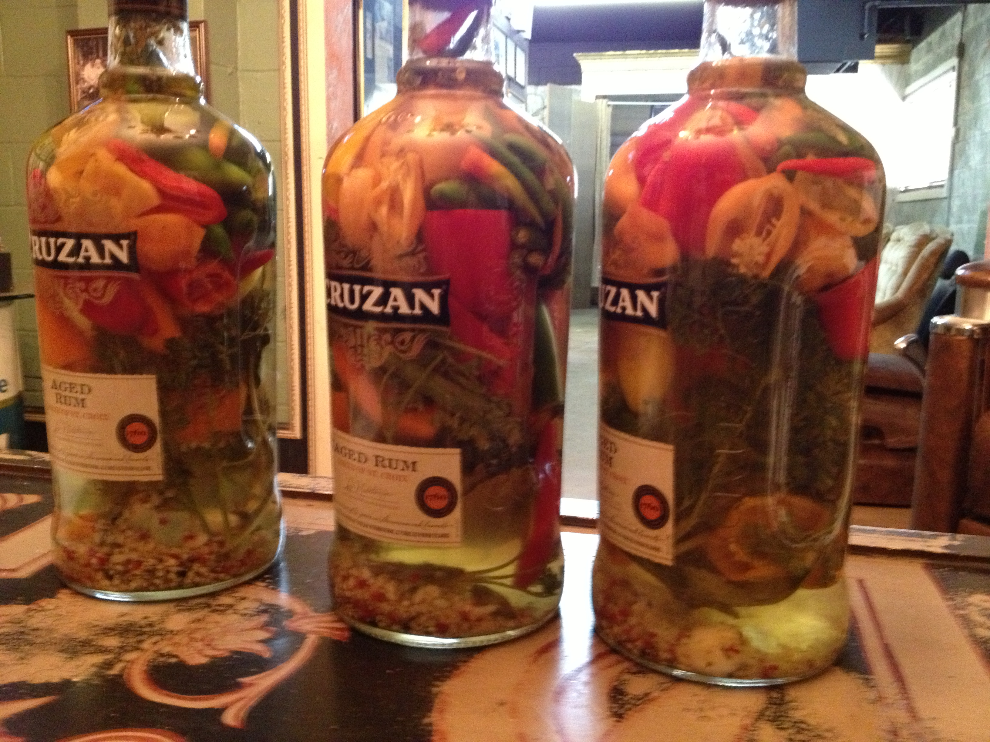 home made pique sauce